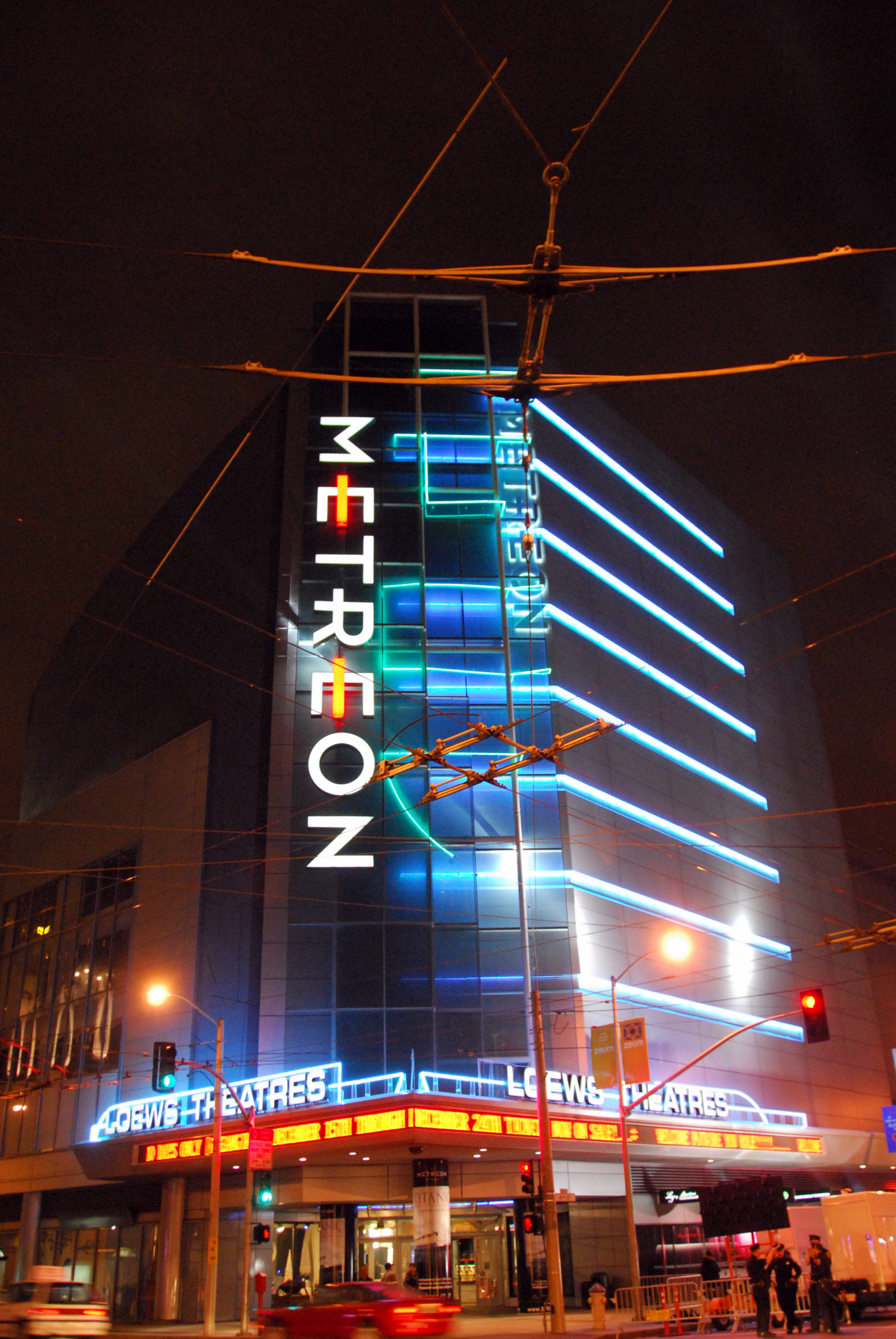 Sony Metreon illuminated in the night by its neon lights in SOMA, San Francisco, CA, USA